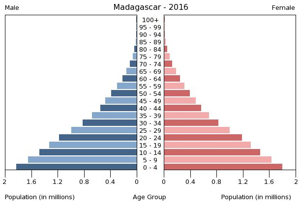 The population pyramid of Madagascar illustrates the age and sex structure of population and may provide insights about political and social stability, as well as economic development. The population is distributed along the horizontal axis, with males shown on the left and females on the right. The male and female populations are broken down into 5-year age groups represented as horizontal bars along the vertical axis, with the youngest age groups at the bottom and the oldest at the top. The shape of the population pyramid gradually evolves over time based on fertility, mortality, and international migration trends.